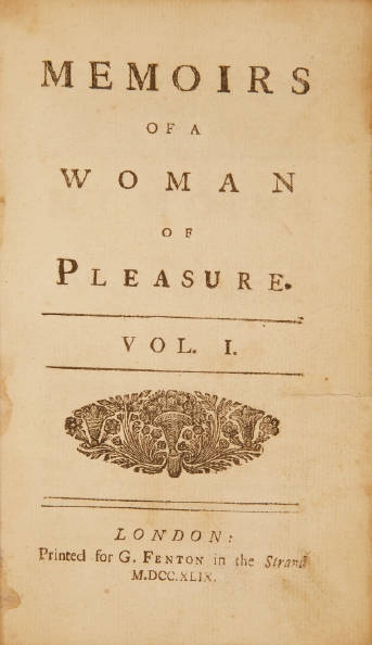 Title page of Fanny Hill under original title Memoirs of a Woman of Pleasure, 1749. One of earliest editions.